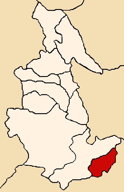 Location of the province Paucar del Sara Sara in the Ayacucho region in Peru (Map)